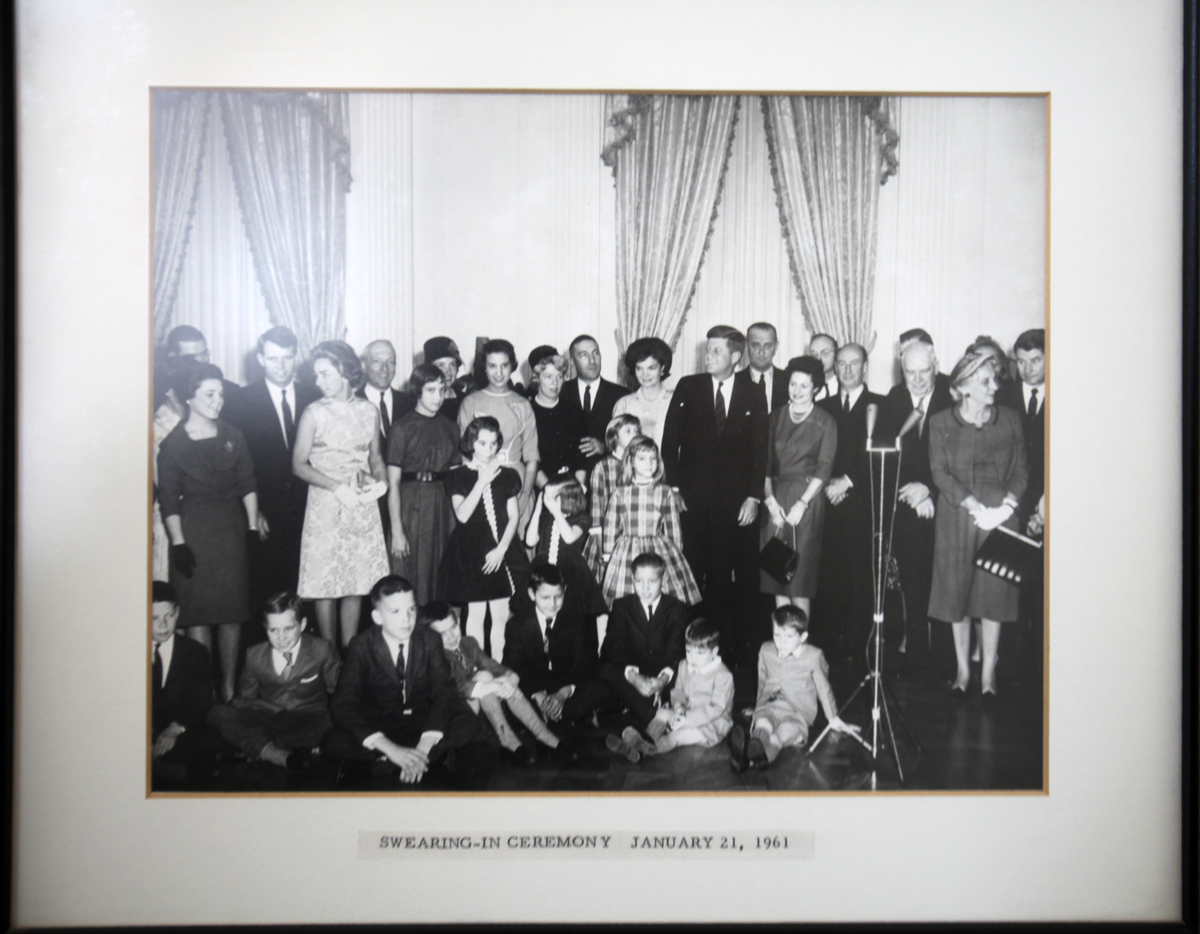 Stewart Udall back row, just left of Mrs Kennedy. Photo taken of an official US government photograph taken January 21 1961 that was hanging in Udall's home.